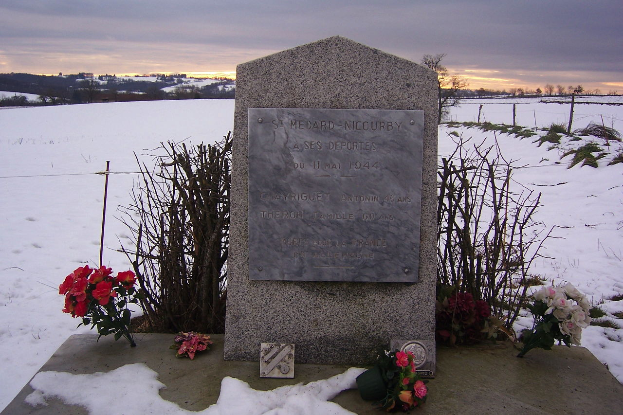 Monument on D653 to the memory of two inhabitants of town Saint-Medard-Nicourby captured by soldiers of 2nd SS Panzer Division Das Reich on 11 mai 1944. Text written on the monument : St Médard-Nicourby A SES DEPORTES DU 11 MAI 1944 CHAYRIGUET ANTONIN 40 ANS THERON CAMILLE 60 ANS MORTS POUR LA FRANCE EN ALLEMAGNE